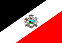 Flag of Macuco